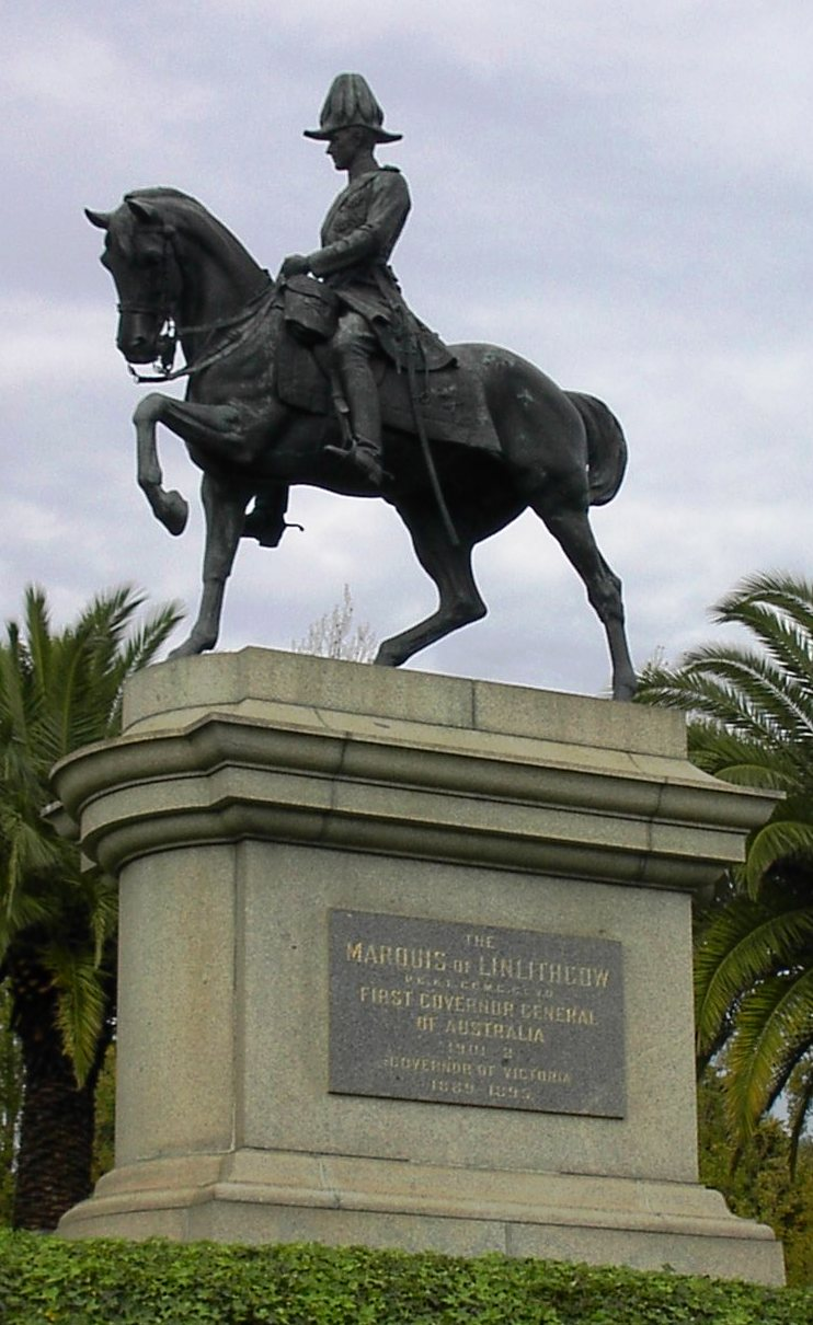 Statue of John Hope, 1st Marquess of Linlithgow ("Lord Linlithgow", "Marquess Linlithgow") in Kings Domain, Melbourne.